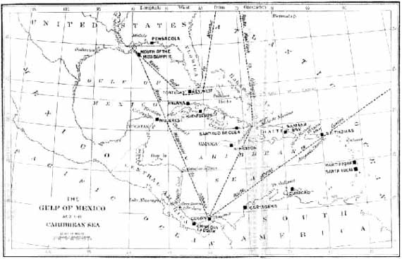 THE STRATEGIC FEATURES OF THE GULF OF MEXICO AND THE CARIBBEAN SEA.